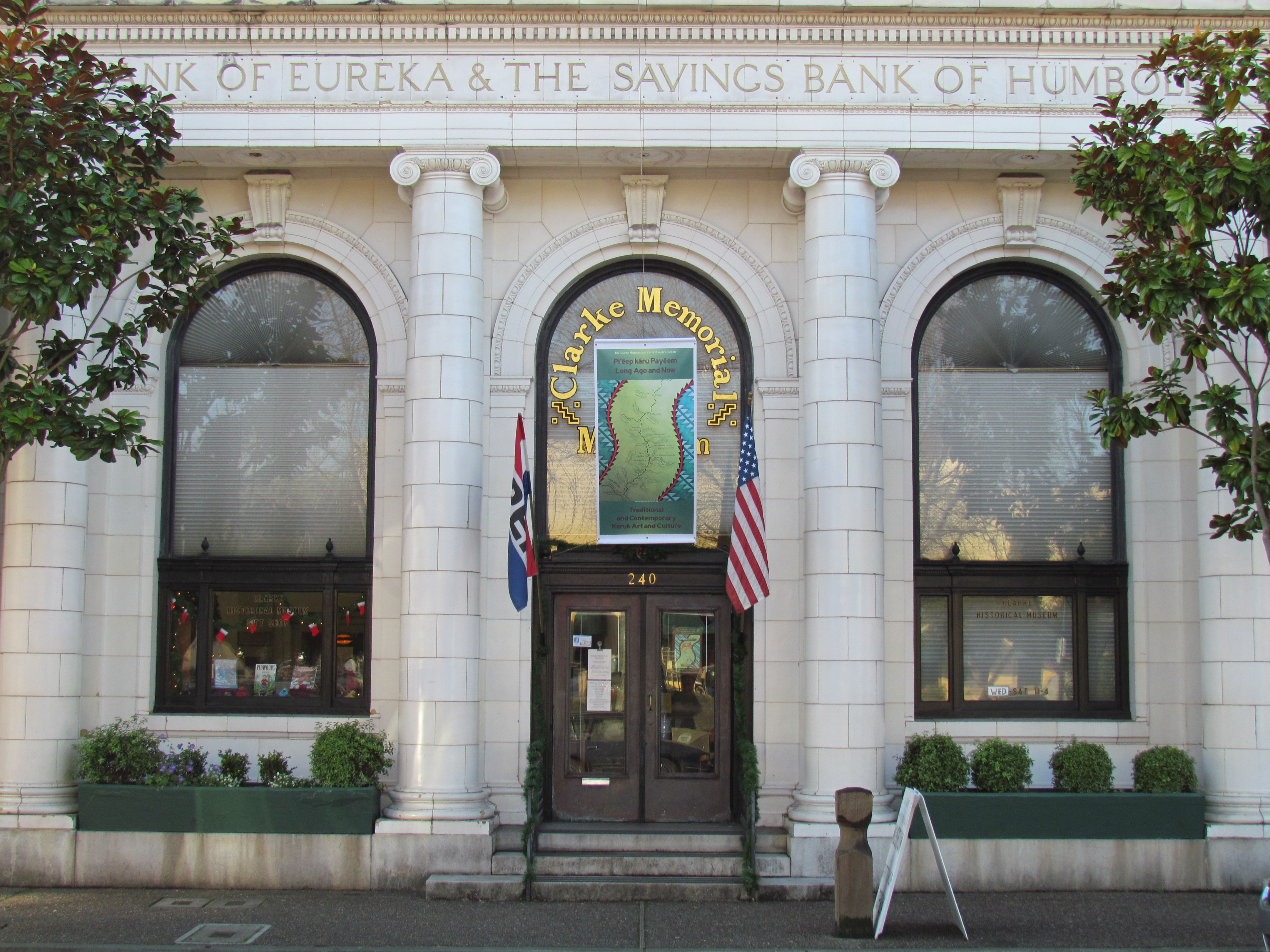 The Clarke Historical Museum, located at 240 E Street, Eureka, California.